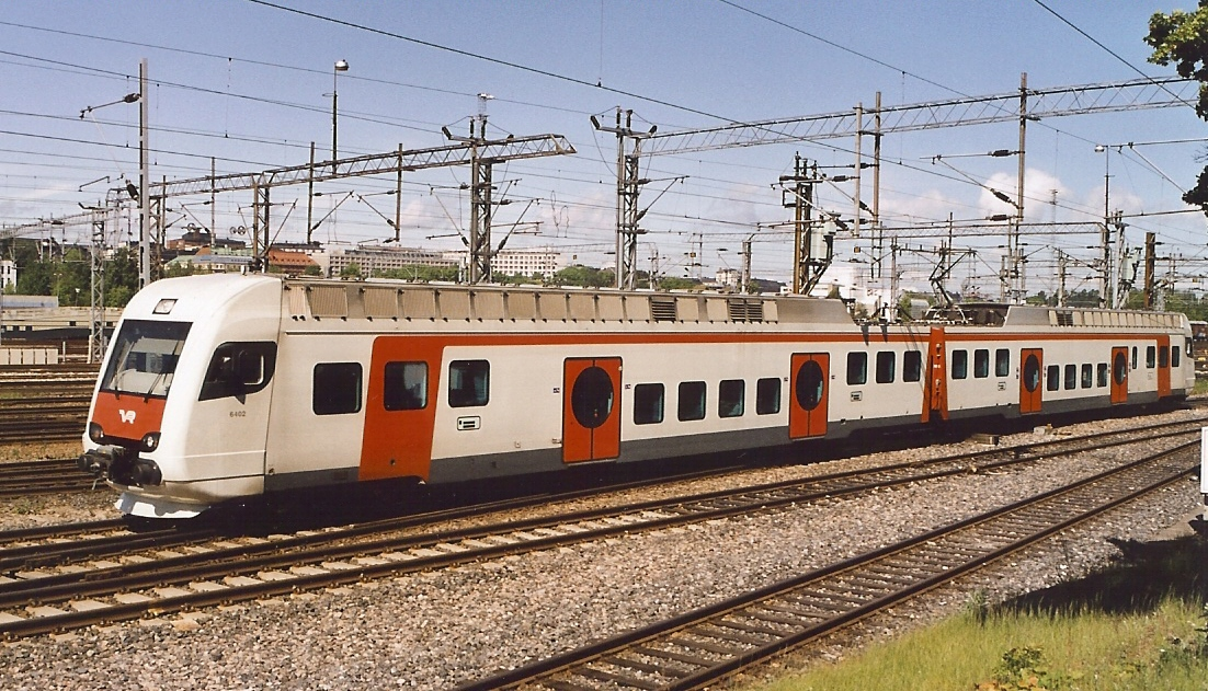 Sm4 electric multiple unit no. 6402 in Helsinki, Finland